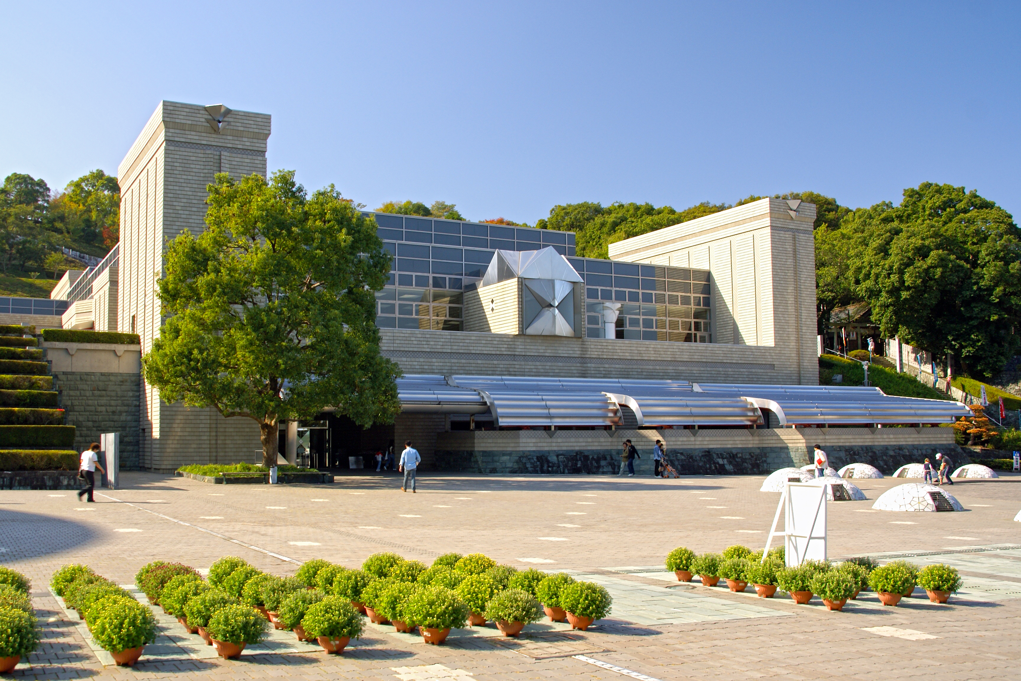 Tokushima Prefectural Library of Tokushima Bunka-no-Mori Park in Tokushima, Tokushima prefecture, Japan